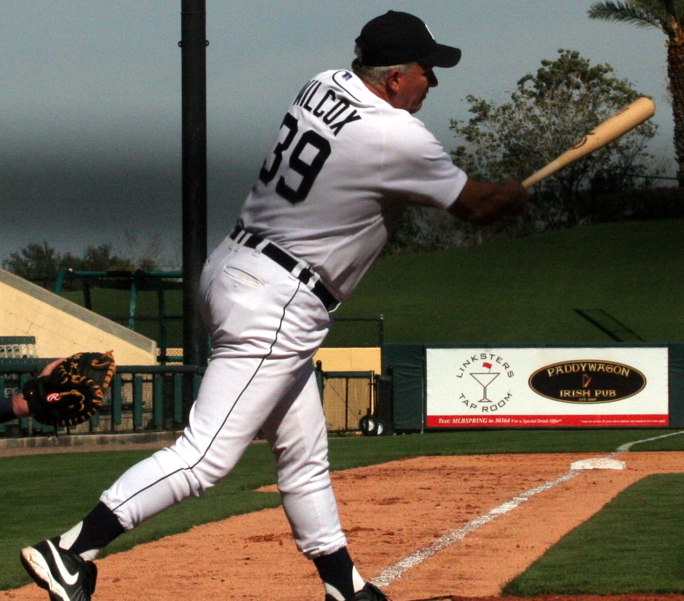 Milt Wilcox bats during the 2012 Detroit Tigers Fantasy Camp in Lakeland, Florida